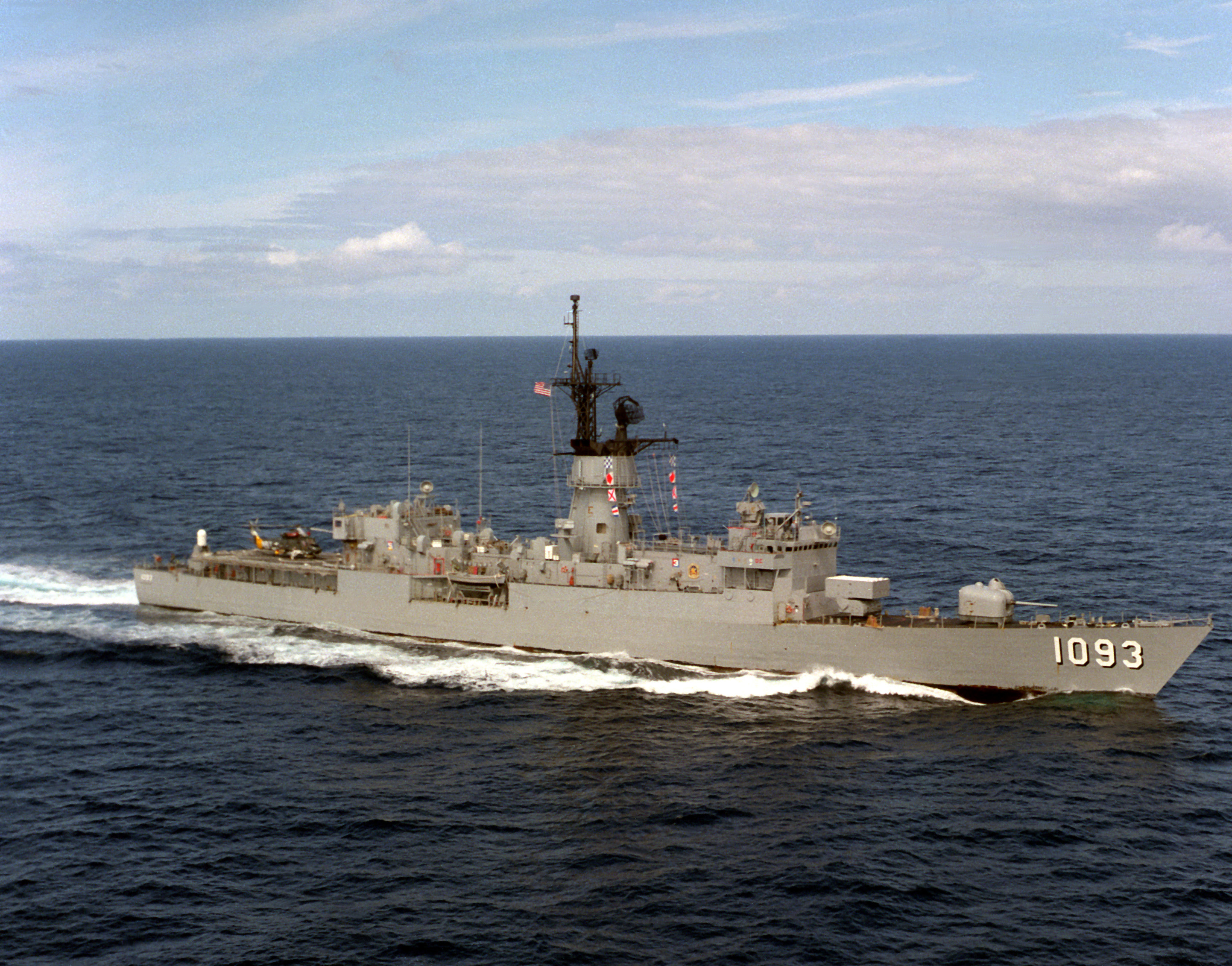 A starboard bow view of the frigate USS CAPODANNO (FF-1093) underway.